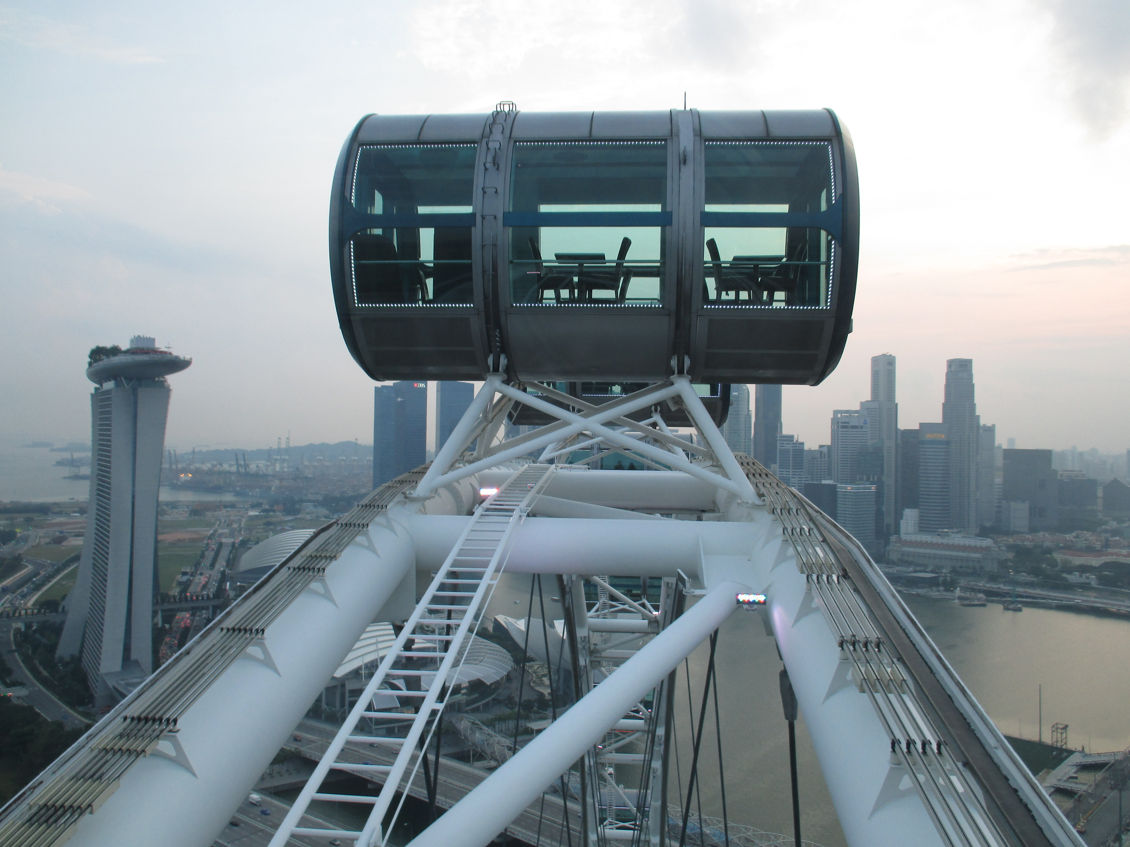 The cabin of the Singapore flyer